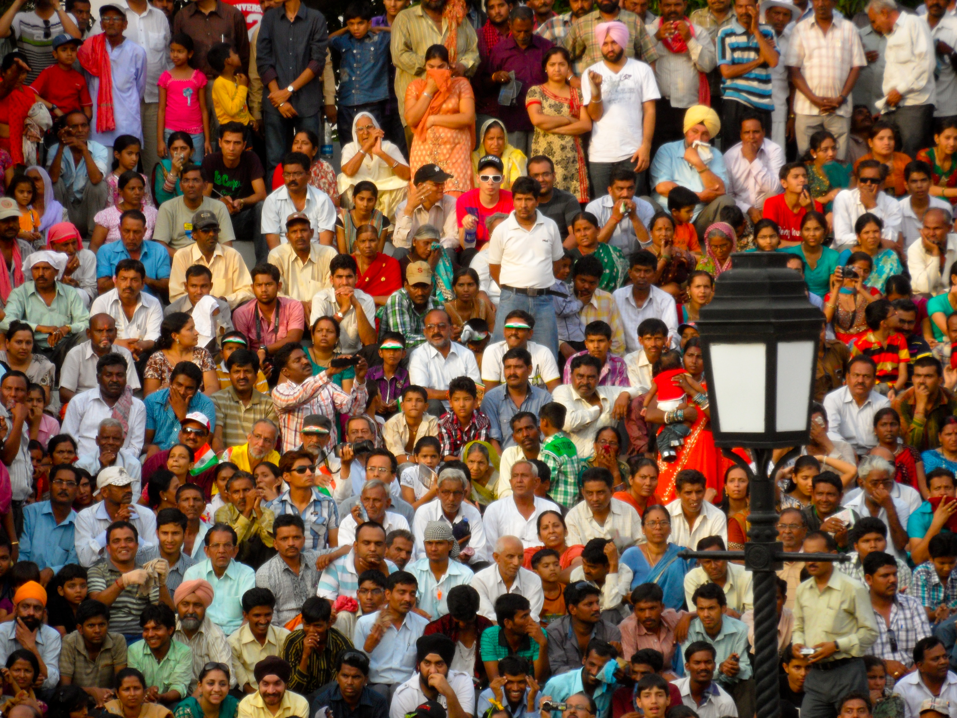 indian audience at the flag ceremony; Wagah Border, Punjab, India